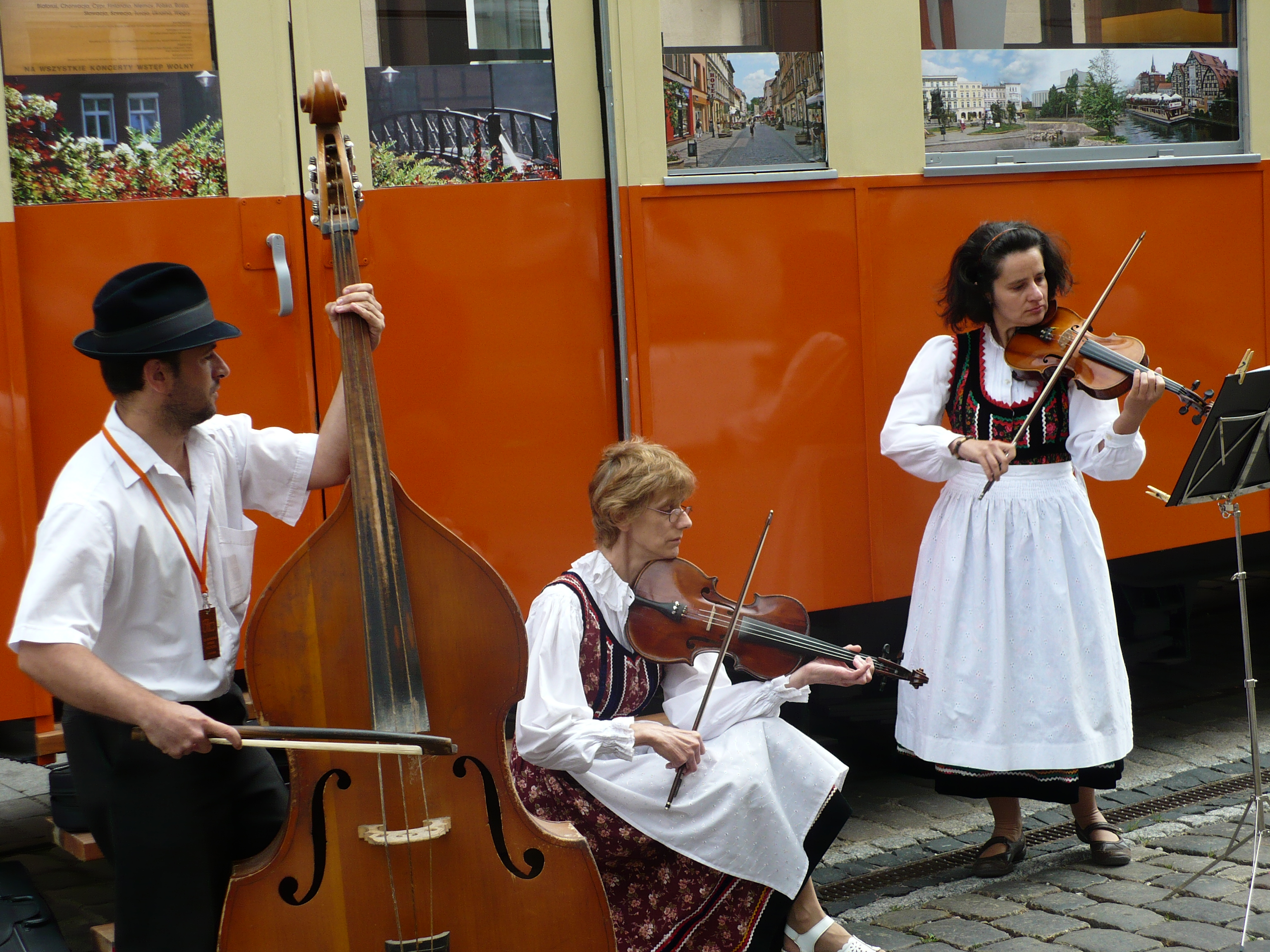 The Maros Folk Band from Makó plays music in the streets of Bydgoszcz, Poland.